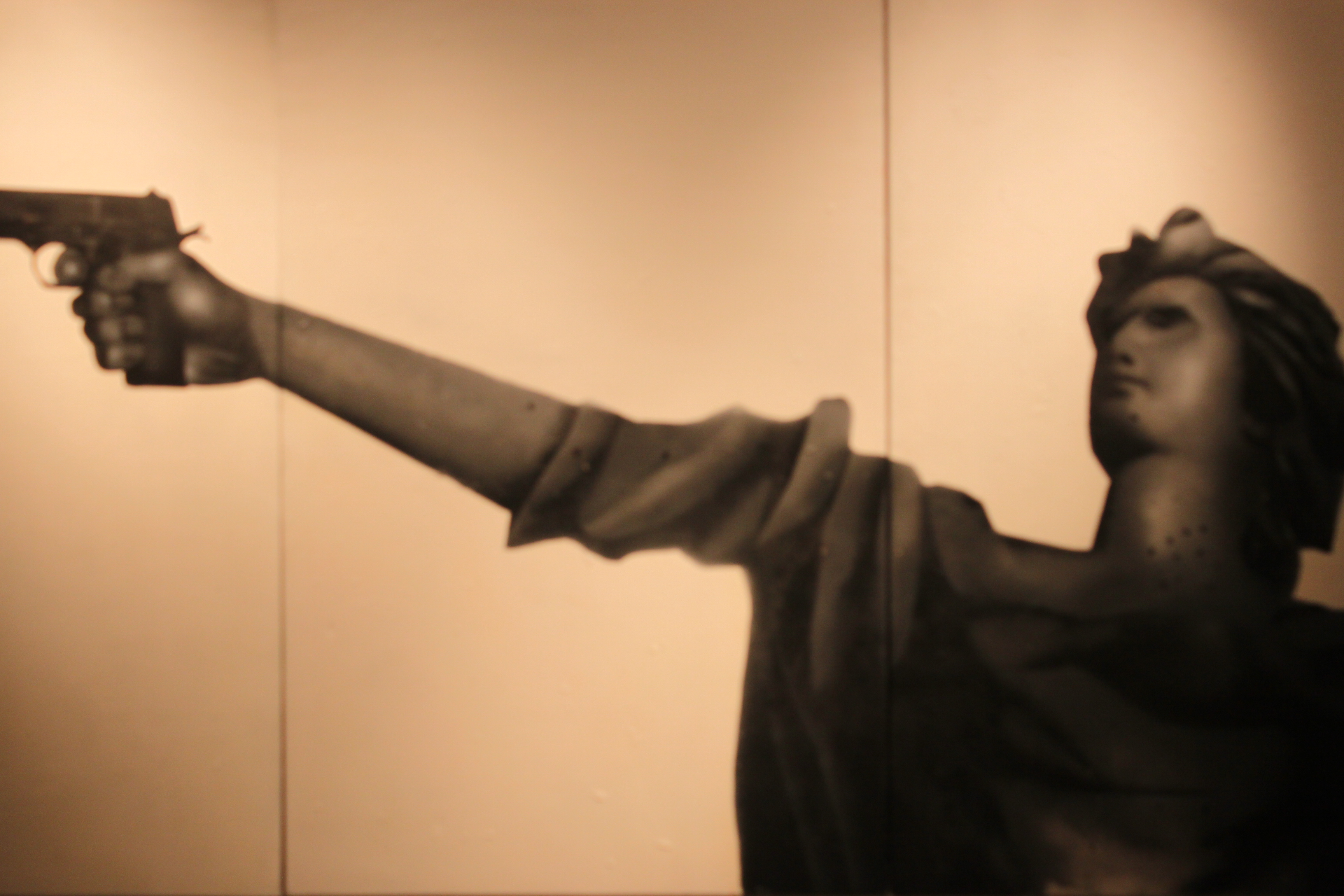 Ali Dirani Paintings, art lebanon, status social, artist lebanon, exhibition lebanon